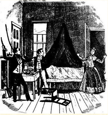 Scan of drawing from published text of Box and Cox, published by Thomas Hailes Lacey, London, circa 1850.